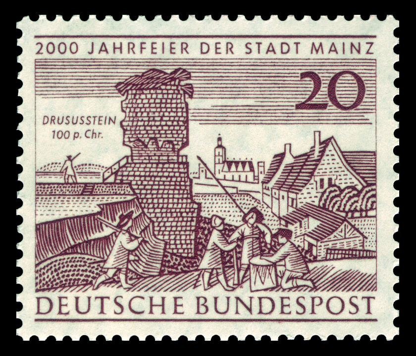 2000 years of Mainz Graphics by Ege Ausgabepreis: 20 Pfennig First Day of Issue / Erstausgabetag: 10. Mai 1962 Michel-Katalog-Nr: 375